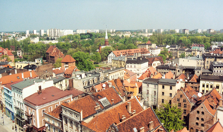 Toruń, Poland, view from towh hall's tower on Old Town